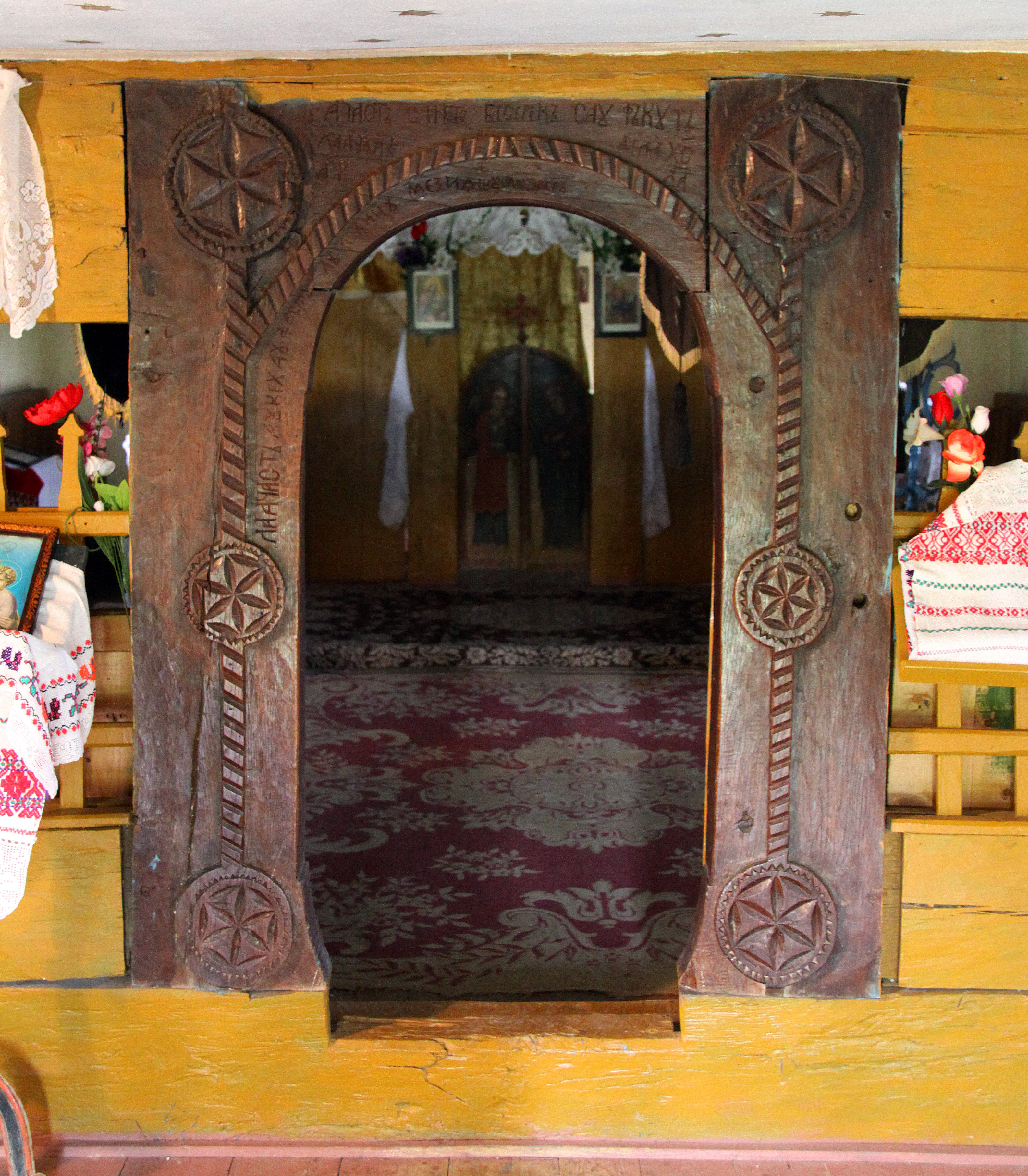 Talpe, Bihor: the wooden church. Portal towards nave.